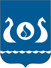 Kirishi (Leningrad oblast), coat of arms